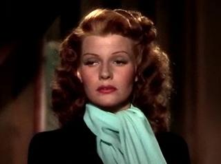 Cropped screenshot of Rita Hayworth from the film Tonight and Every Night